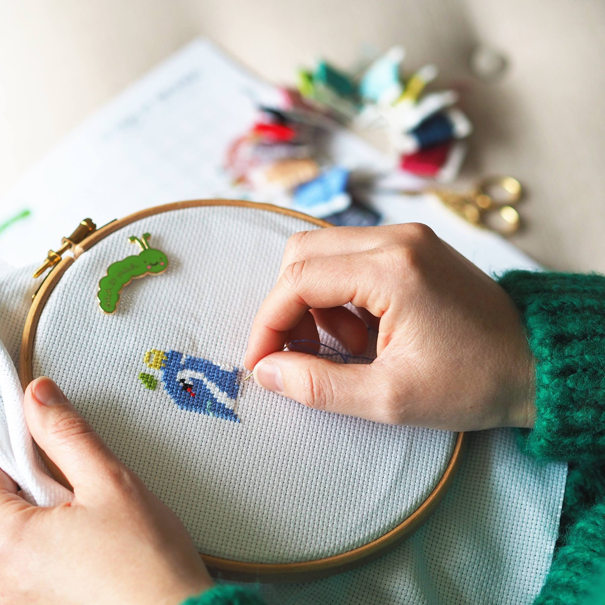 Modern cross stitching by Caterpillar Cross Stitch